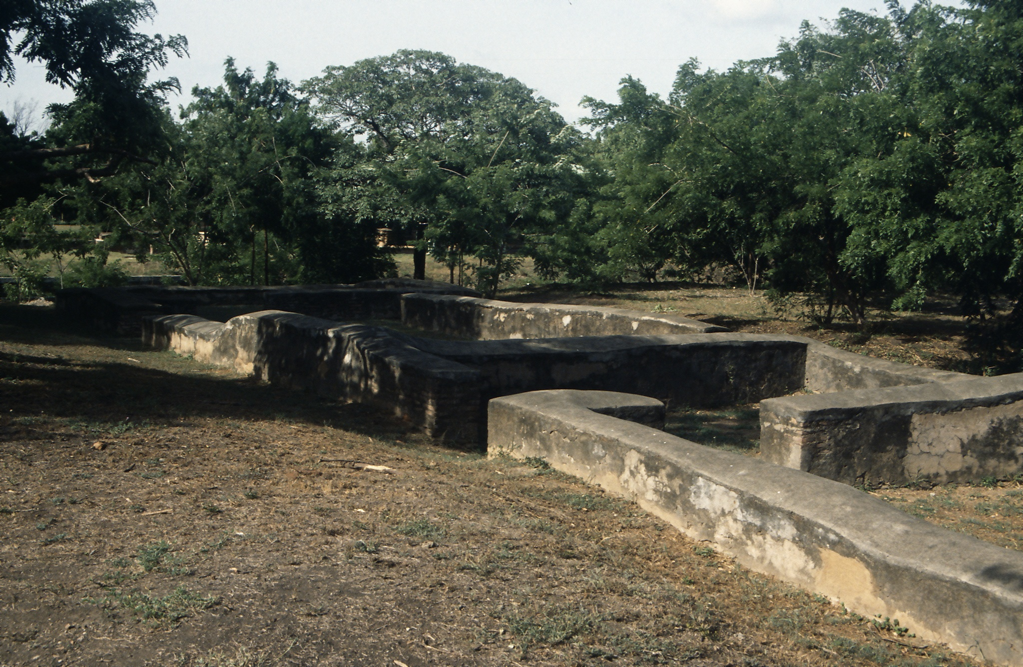 Ruins of León Viejo